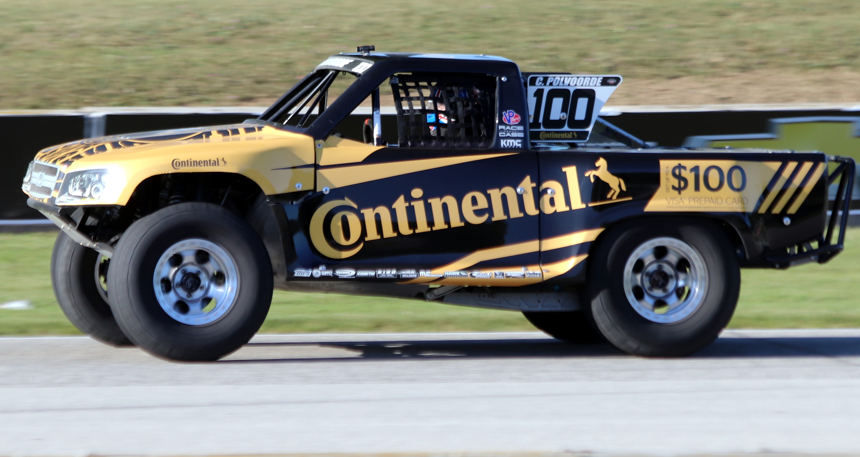 The Stadium Super Truck of Chris Polvoorde at Road America in round 15.